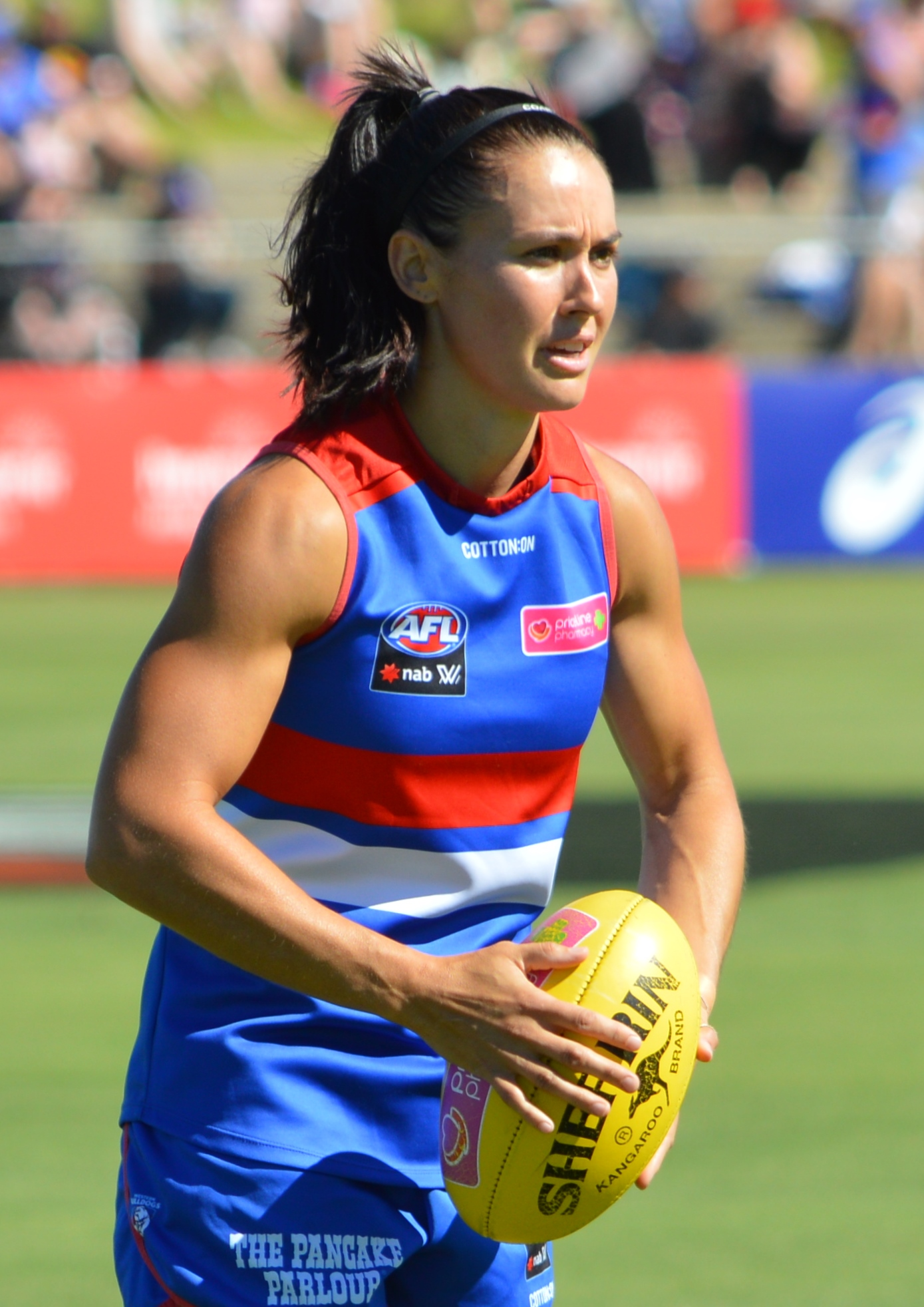 Nicole Callinan during the round 1, 2018 AFL Women's match between the Western Bulldogs and Fremantle.